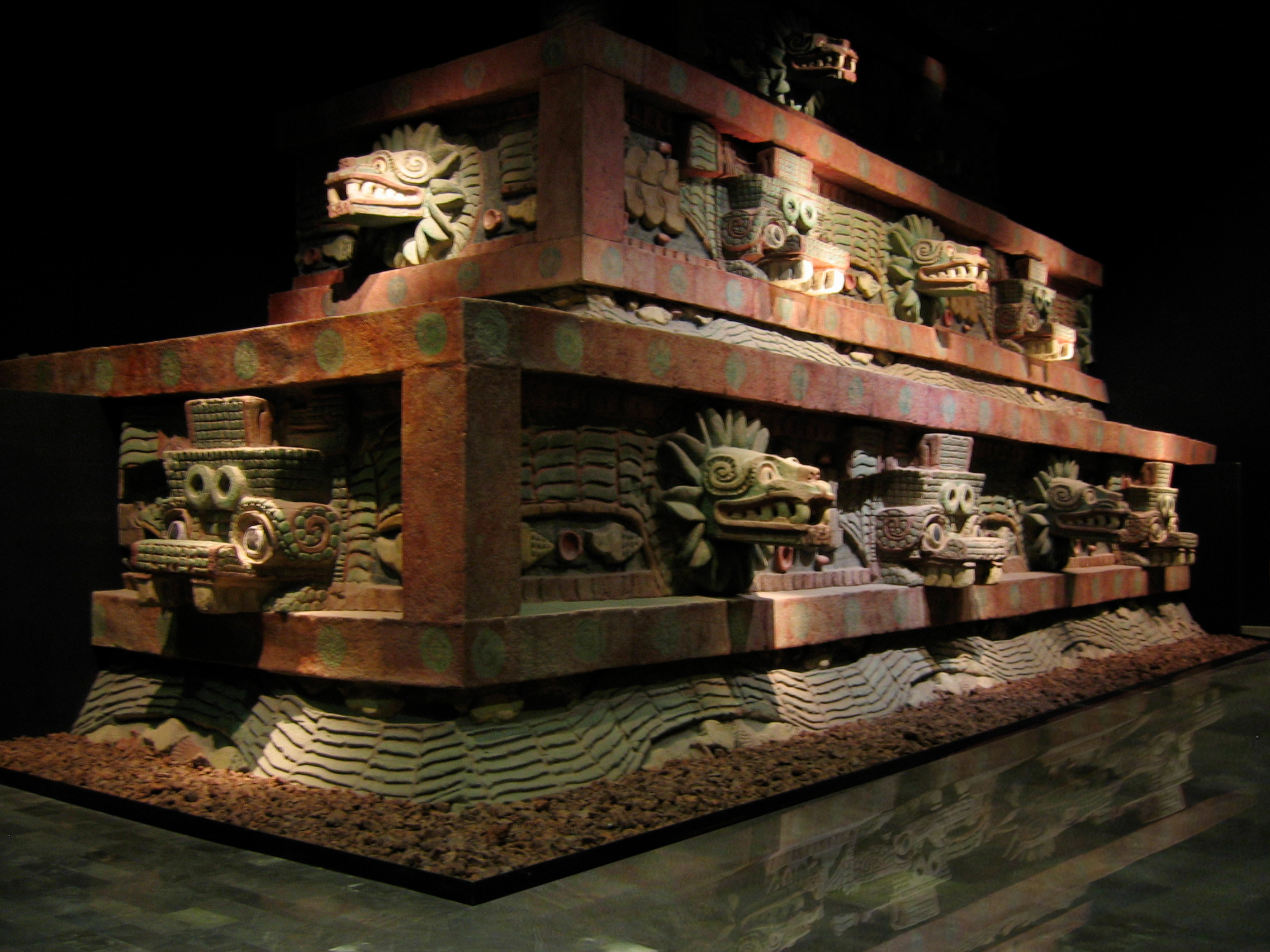 Reconstruction of the facade of the Temple of the Feathered Serpent (Teotihuacán) Now located in the National Museum of Anthropology.